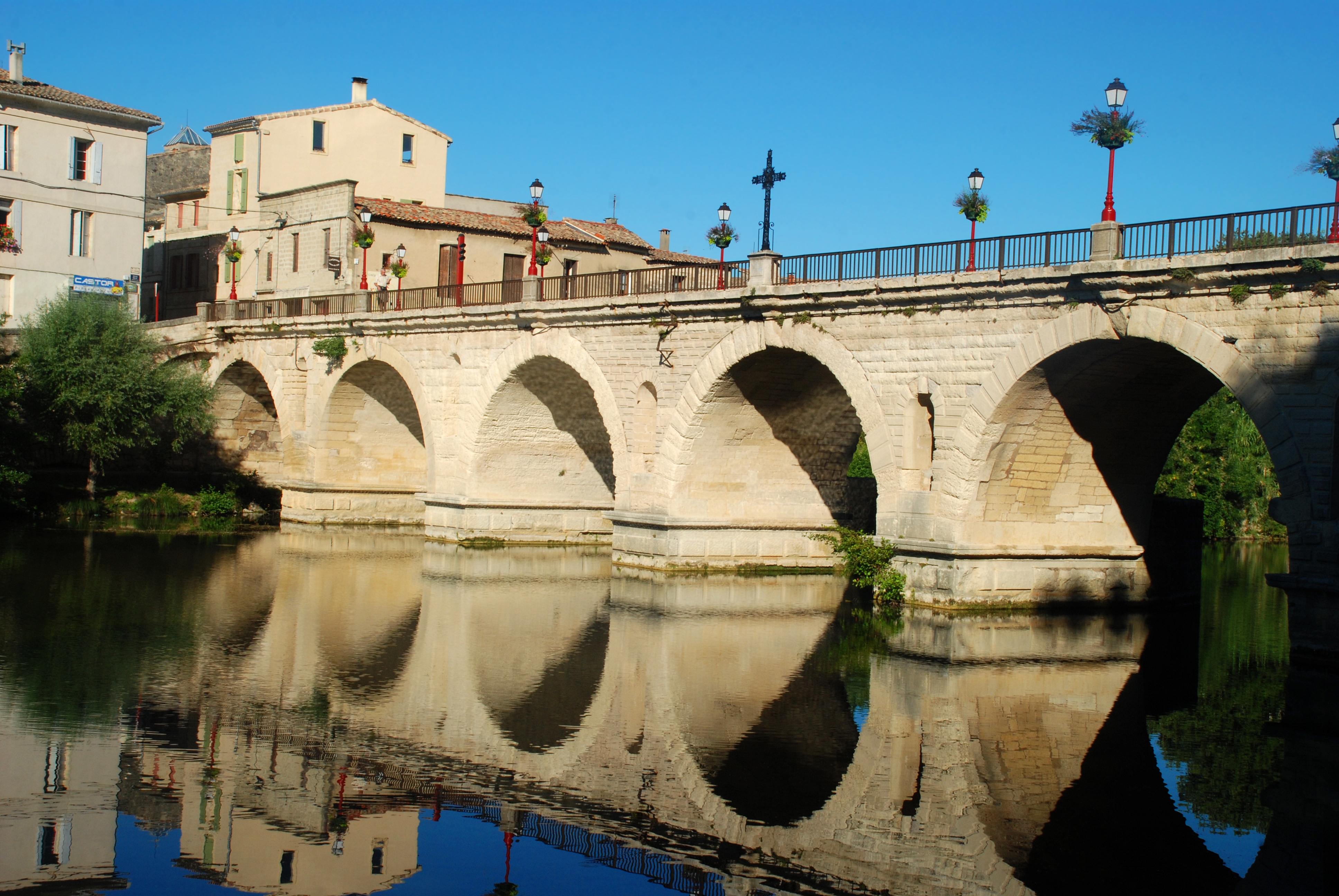 France - Gard - Sommières - roman bridge